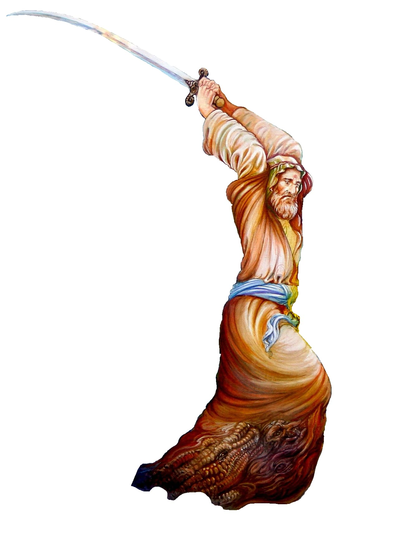 This painting by Yousef Abdinejad is entitled "Martyrdom of Imam Ali". It depicts Ali being assassinated by Ibn Muljam. There are also angels prohibiting Ibn Muljam from hitting Ali by sword.